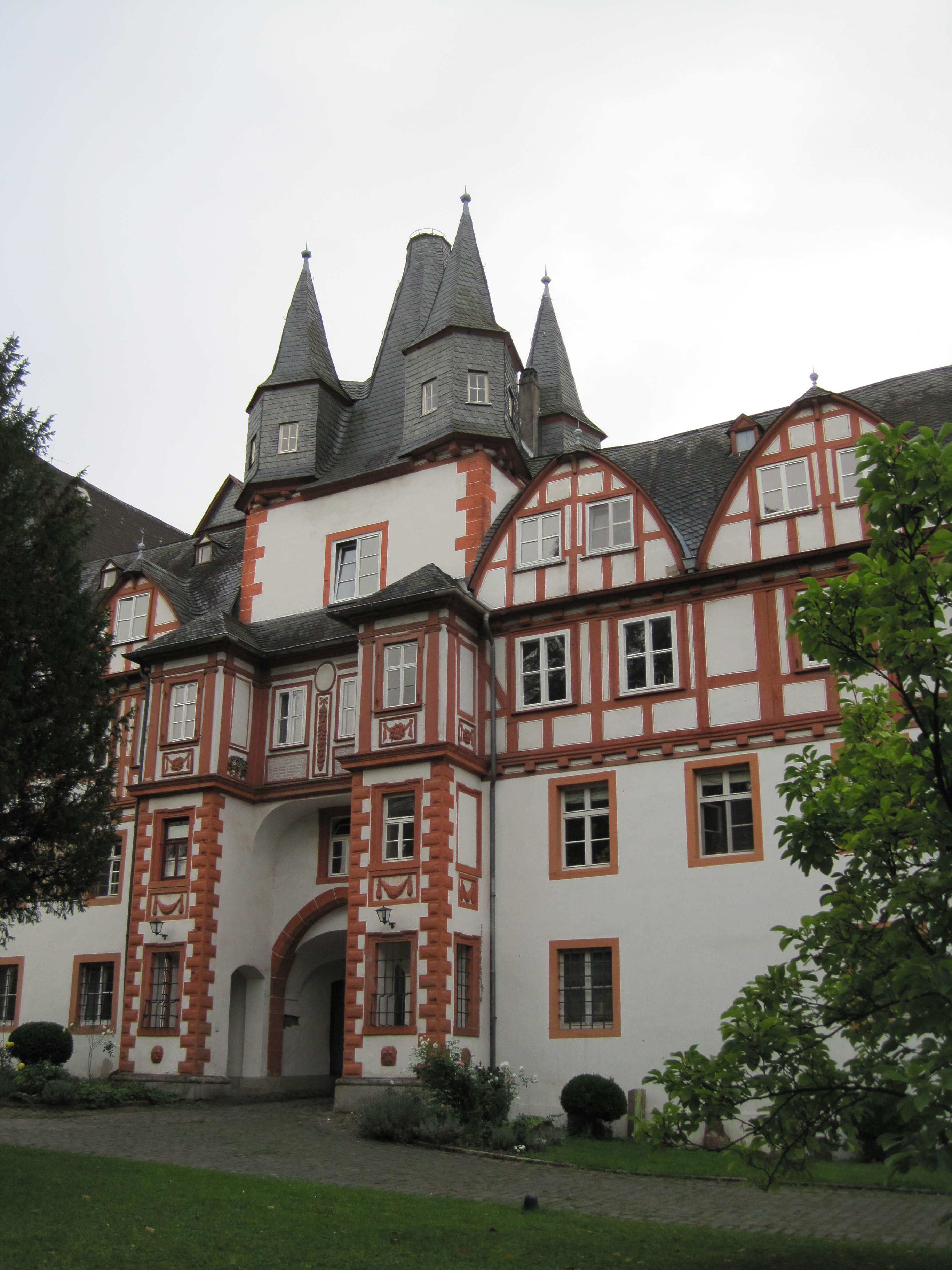 Castle, Hungen, Germany check usage